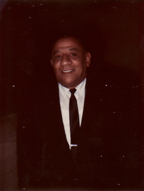 Herbert Mills of Mills Brothers, 1966